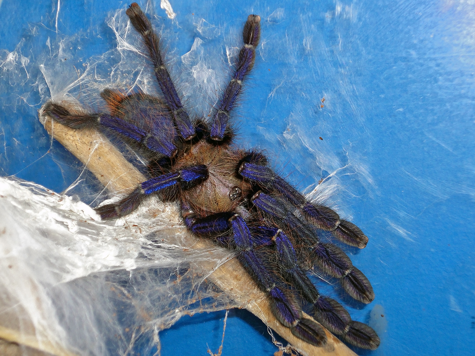 Singapore Blue